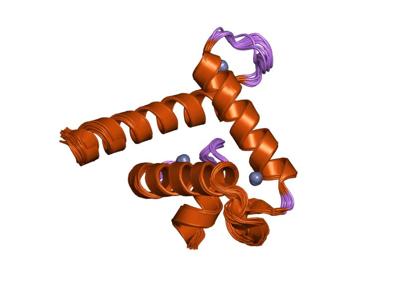 Cartoon representation of the molecular structure of protein registered with 1f81 code.